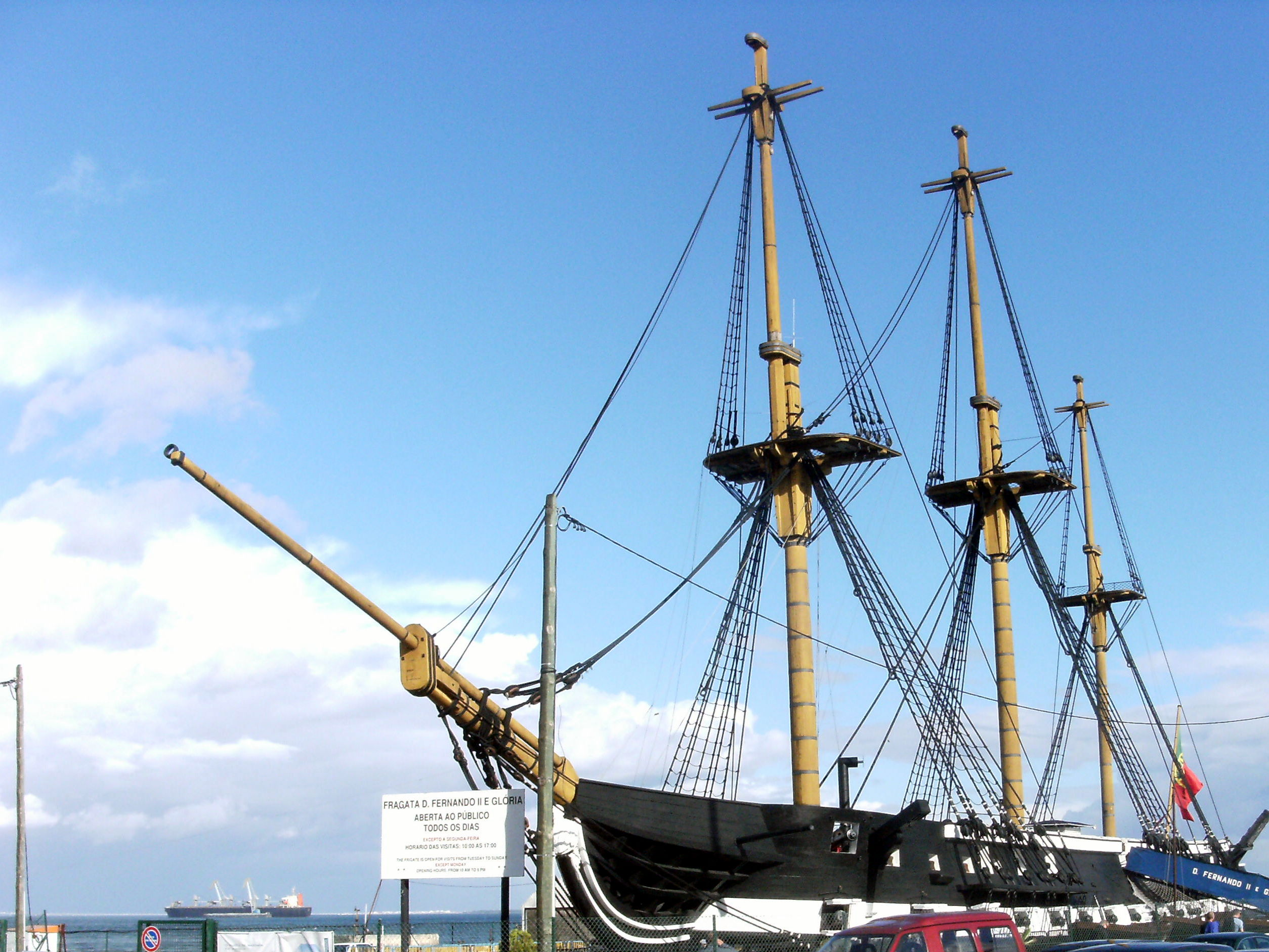 20121026: Almada & Cacilhas